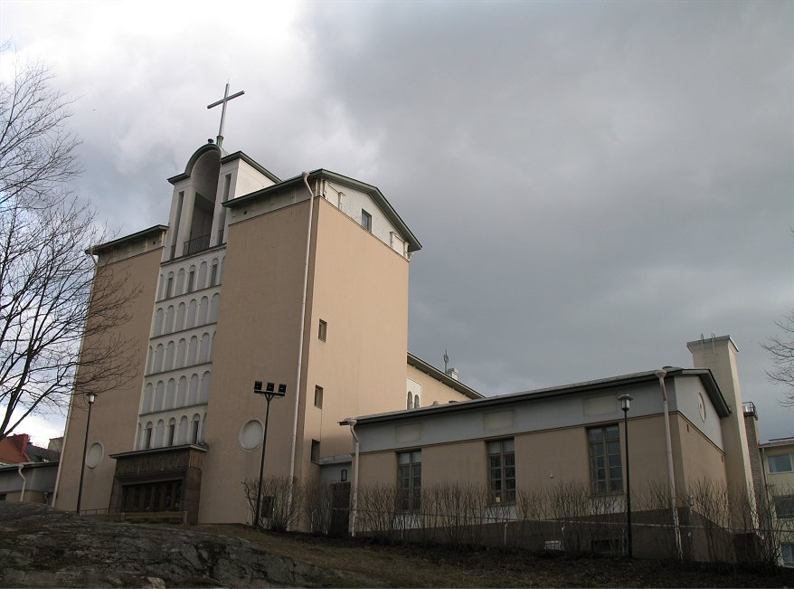 Töölö Church, situated in the Taka-Töölö district of Helsinki, Finland. Architect:Hilding Ekelund.